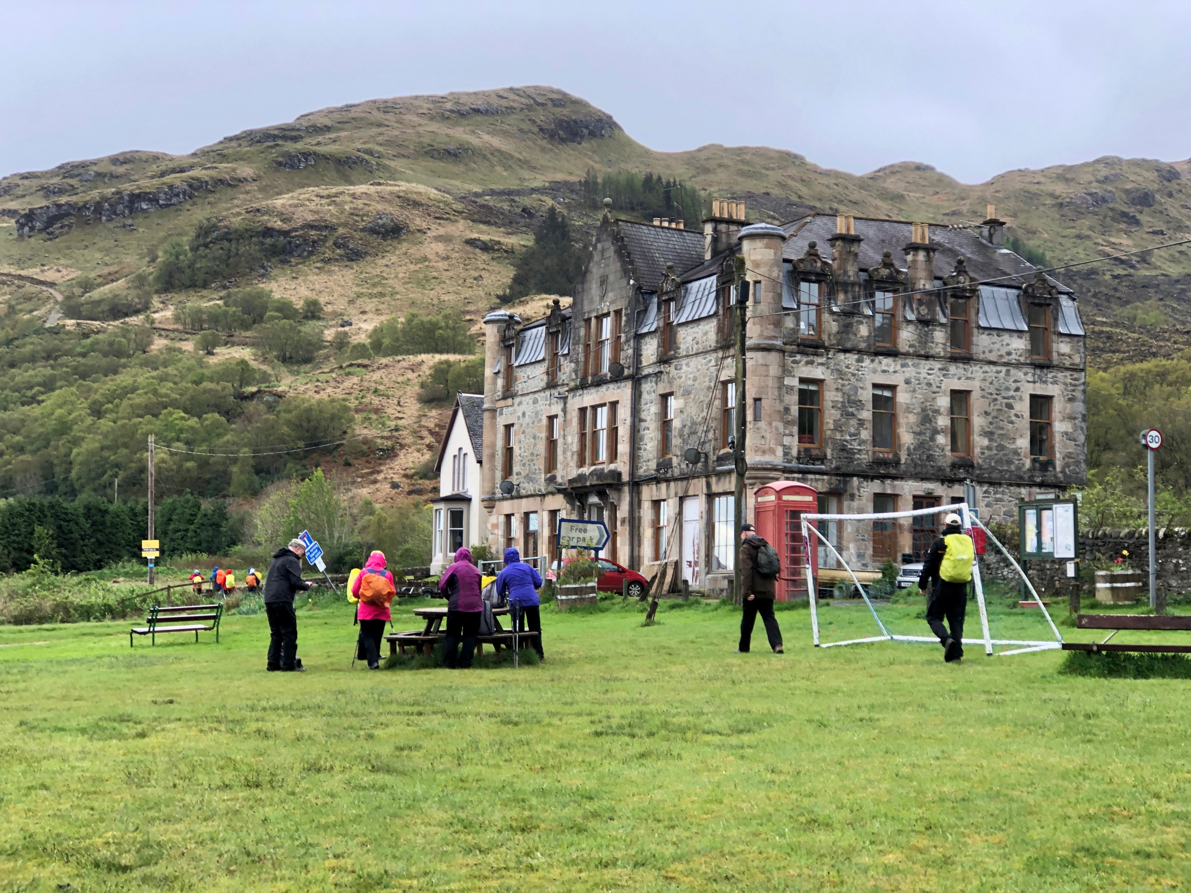 Carrick Castle village. The Scots Baronial tenement block near the castle is named Hillside Place, built in 1877 to provide holiday apartments for tourists arriving by the pier at the castle.